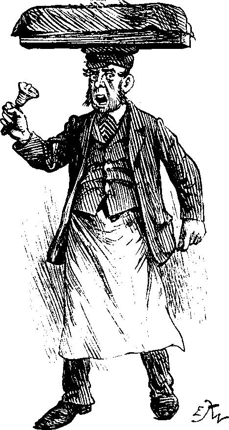 Muffin man, illustrated in Punch